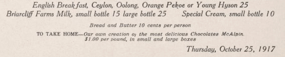 Snippet of a menu at Hotel McAlpin from October 25, 1917, with Briarcliff Farms milk sold.